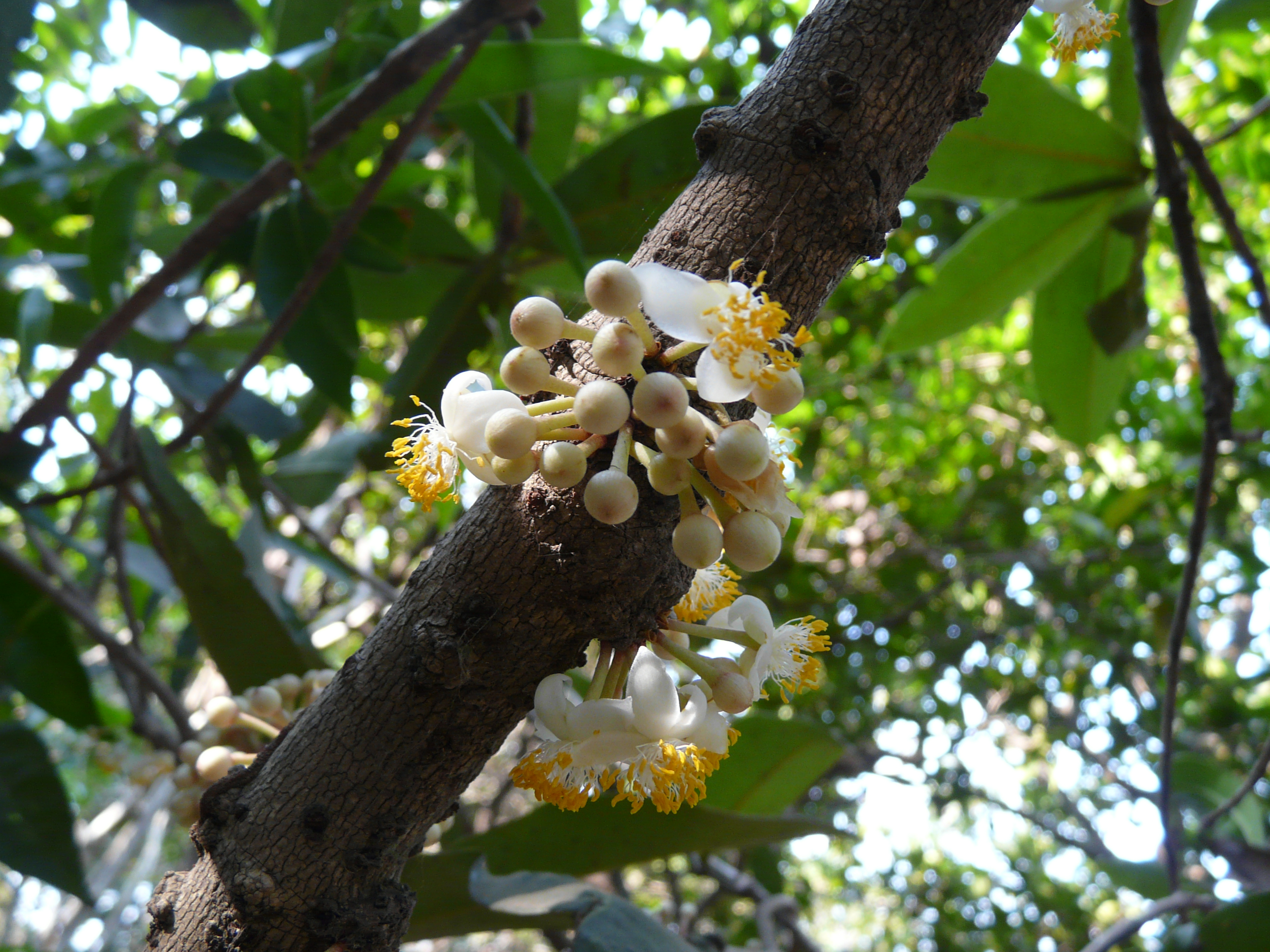 Clusiaceae (garcinia family) » Mammea suriga MAM-ee-uh -- from the West Indian vernacular name mammey ¿ suh-RIG-uh ? -- most likely, from Kanarese surige commonly known as: surangi • Hindi: सुरंगी surangi • Kannada: ಸುರಿಗೆ surige, ಸುರುಗಿ surugi • Konkani: सुरांगन surangan • Marathi: रानउंडी raanundi, सुरंगी surangi • Oriya: churiana • Telugu: సురపొన్న suraponna Endemic to: Western Ghats and Eastern Ghats (India) References: Flowers of India • ENVIS - FRLHT